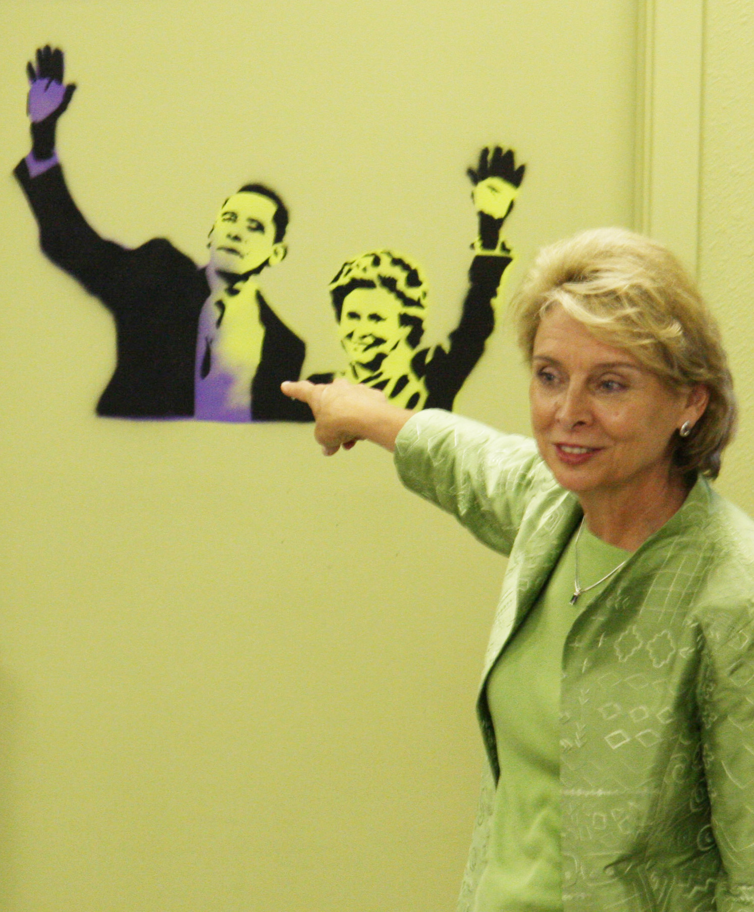 Governor Gregoire points to an Obama sign at a campaign office